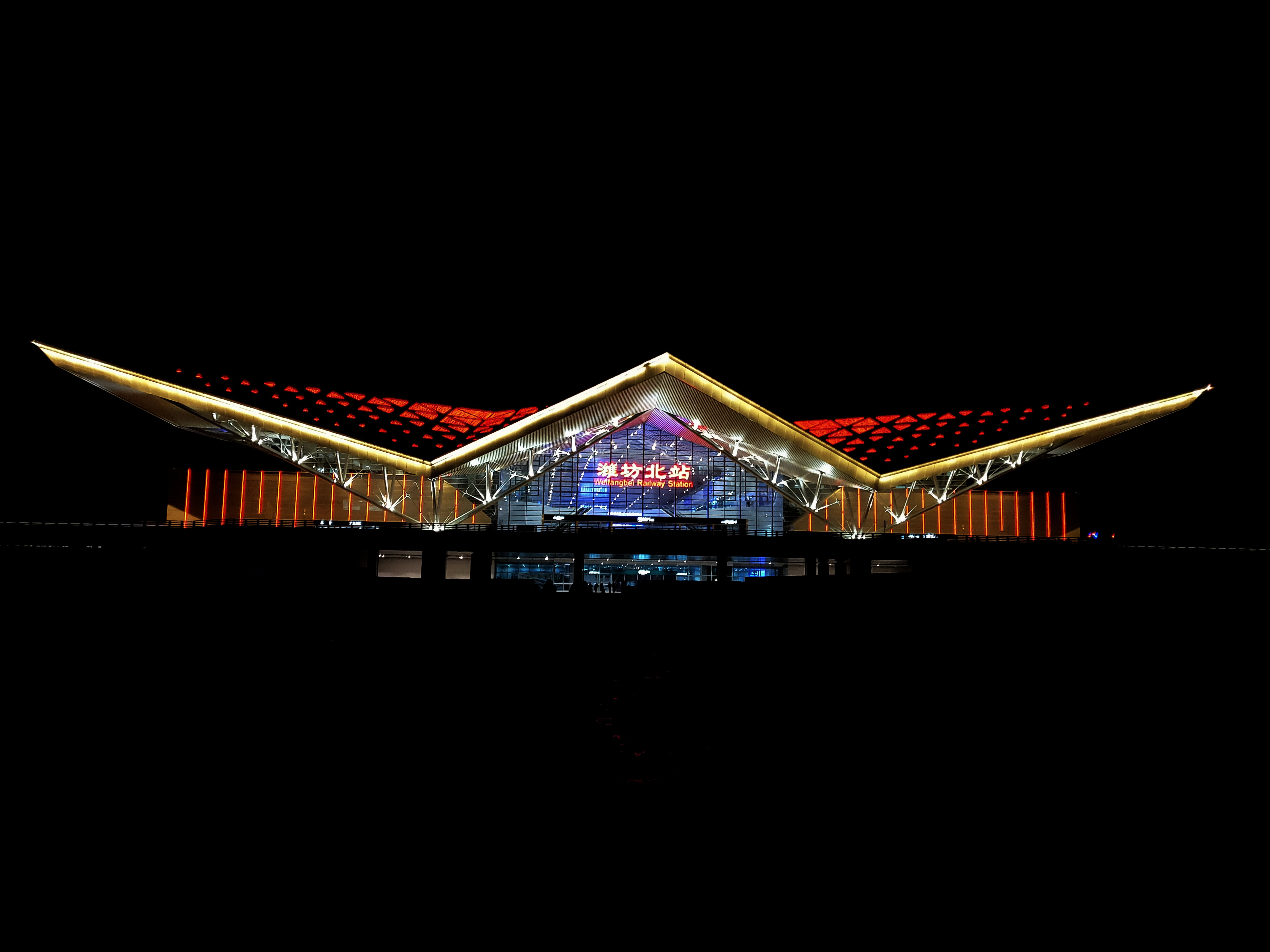 External appearance of this station.